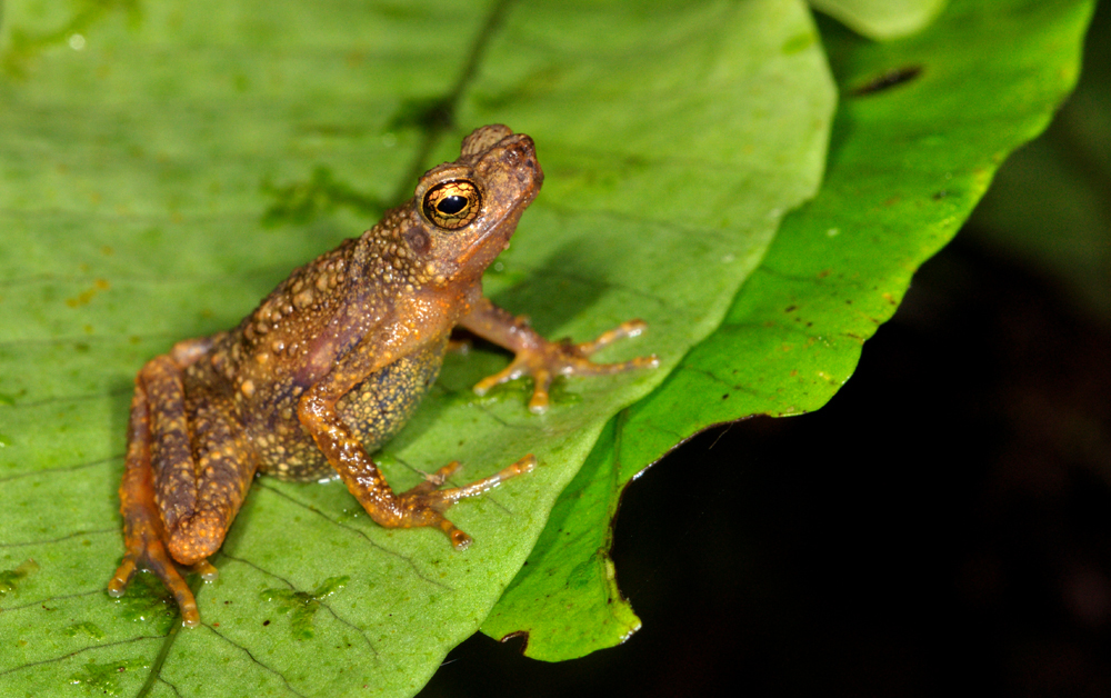 An adult, possibly male of Ansonia minuta, Sarawak, Malaysia.